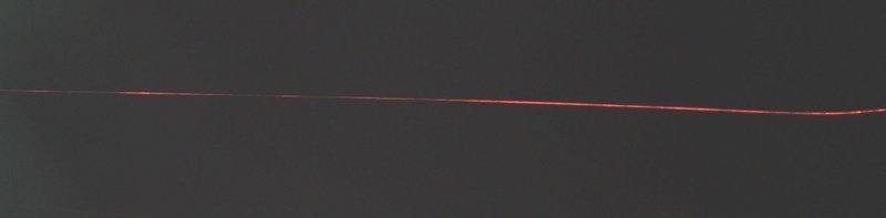 Tracer bullet of a light machine gun in flight.